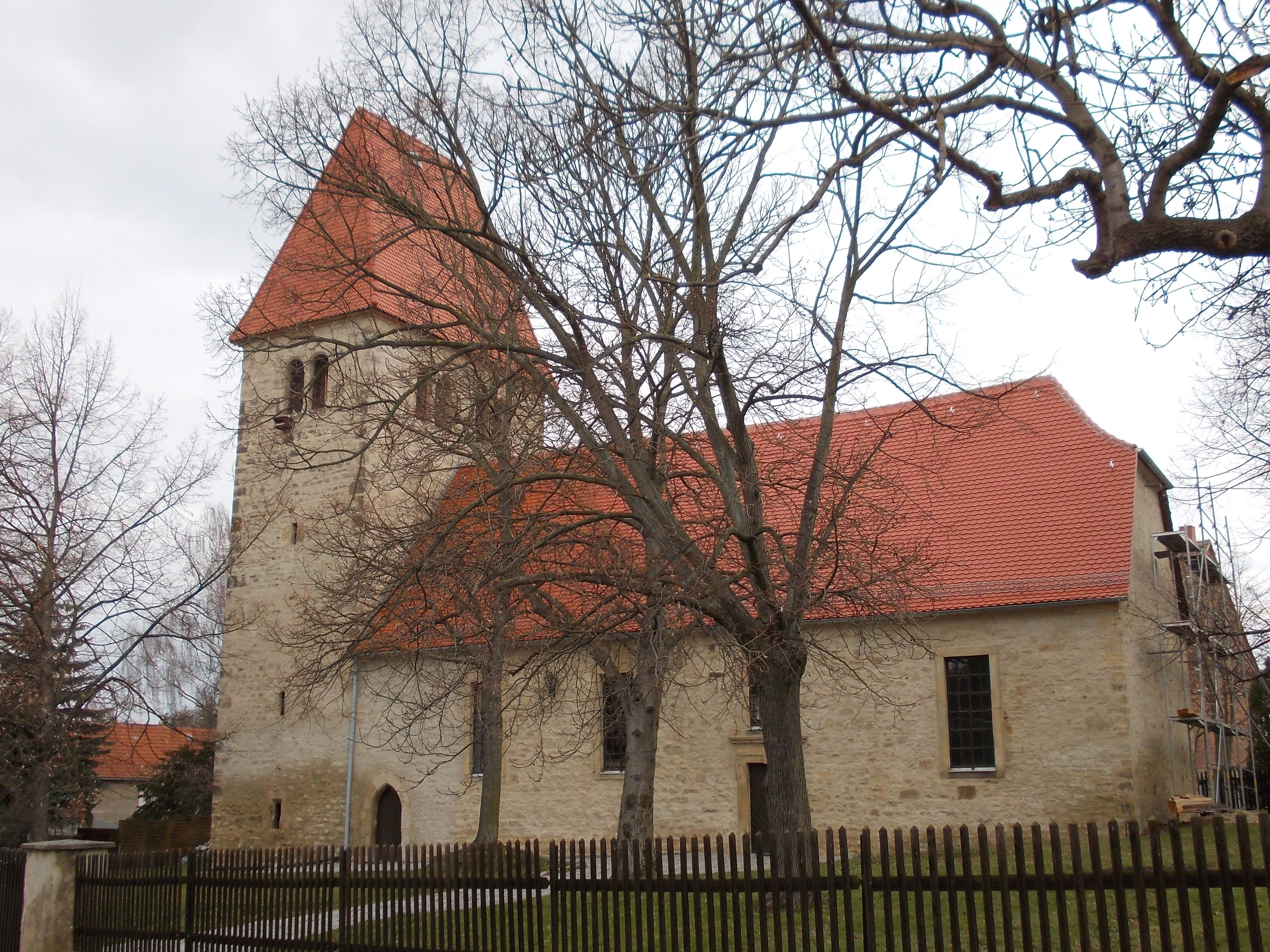 Schladebach church (Leuna, district of Saalekreis, Saxony-Anhalt)